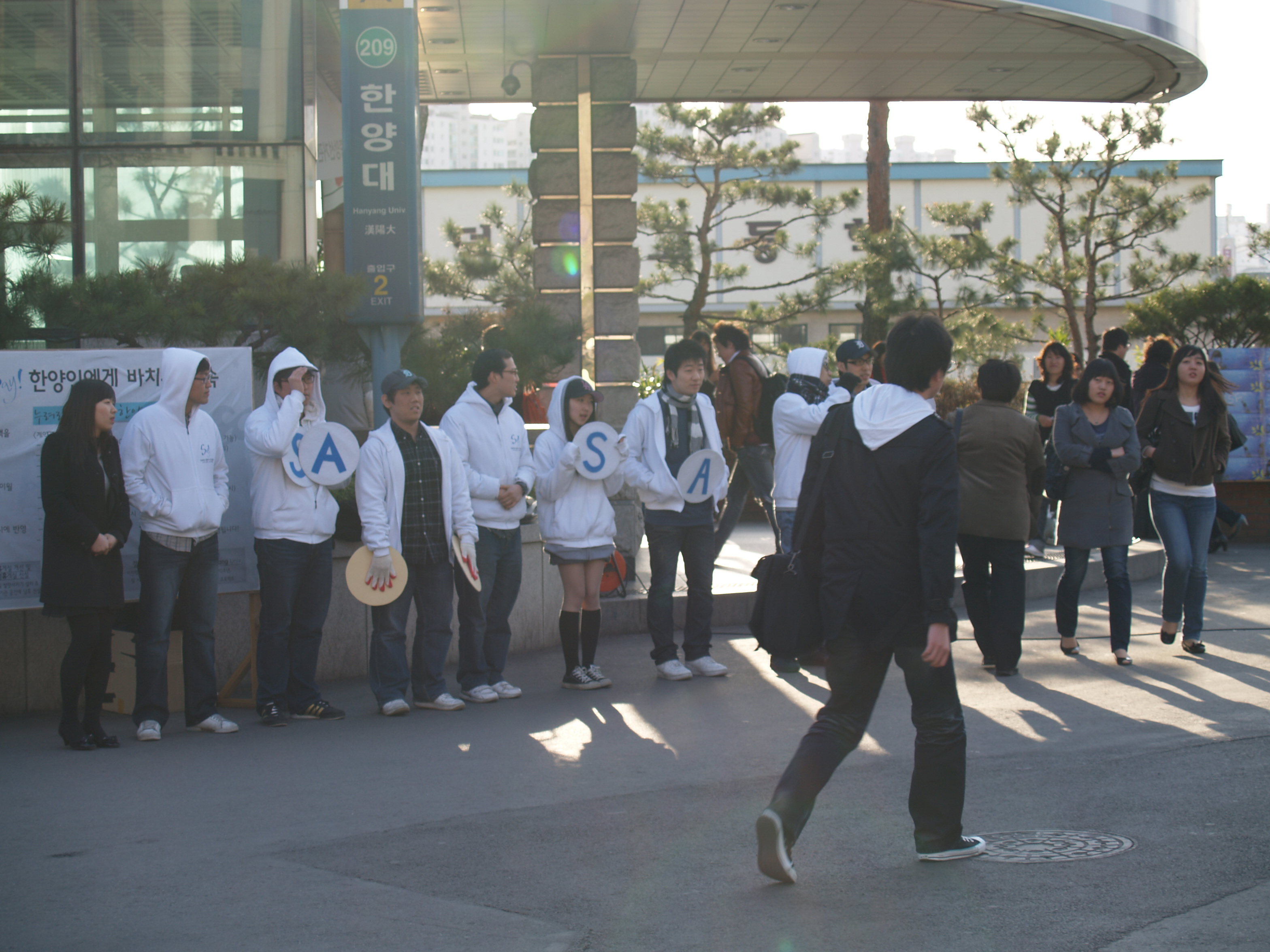 SAY camp's 2009 GSA election campaign, Hanyang University